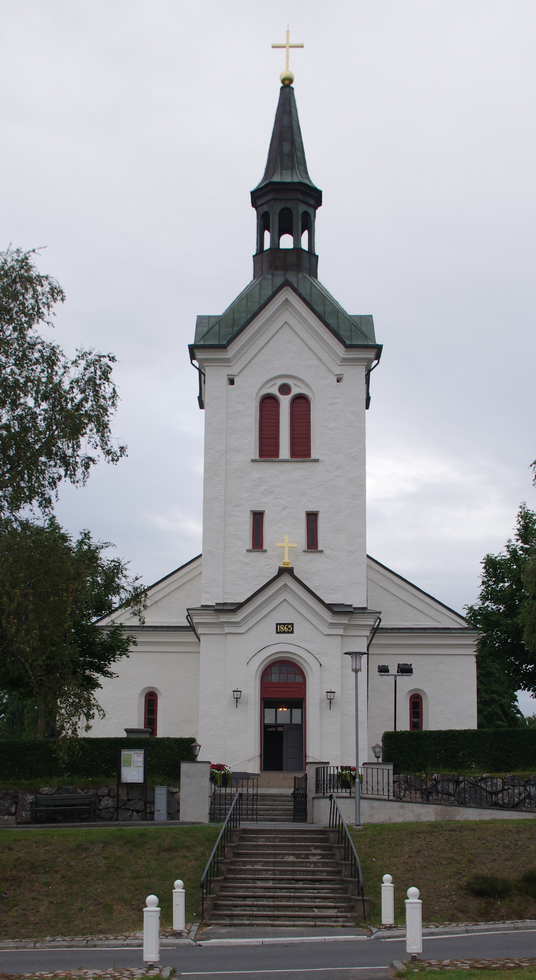 Bankeryds kyrka (swedish: church of Bankeryd), Småland, Sweden.